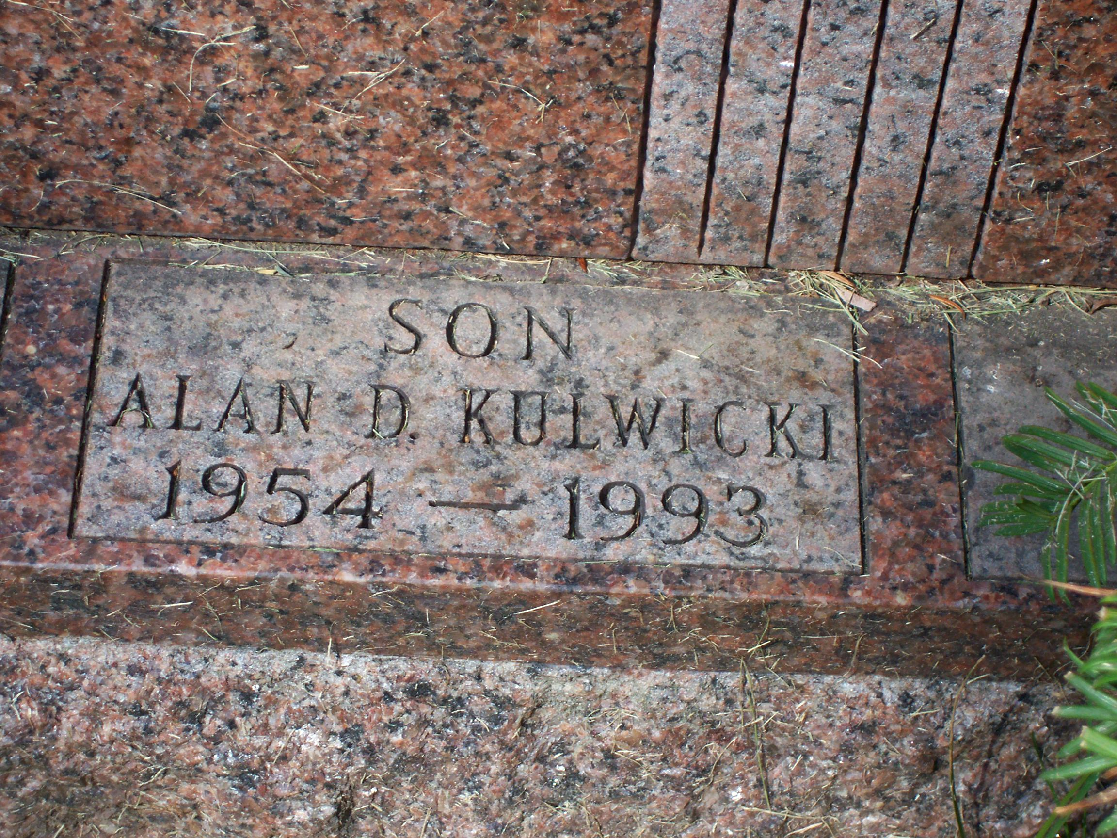 Taken a his grave site. He is buried in a family plot with his mother and brother. Most of the graves in this Polish-American area of the St. Adalbert cemetery in Milwaukee, Wisconsin, USA are family plots.Alan Kulwicki Grave Marker